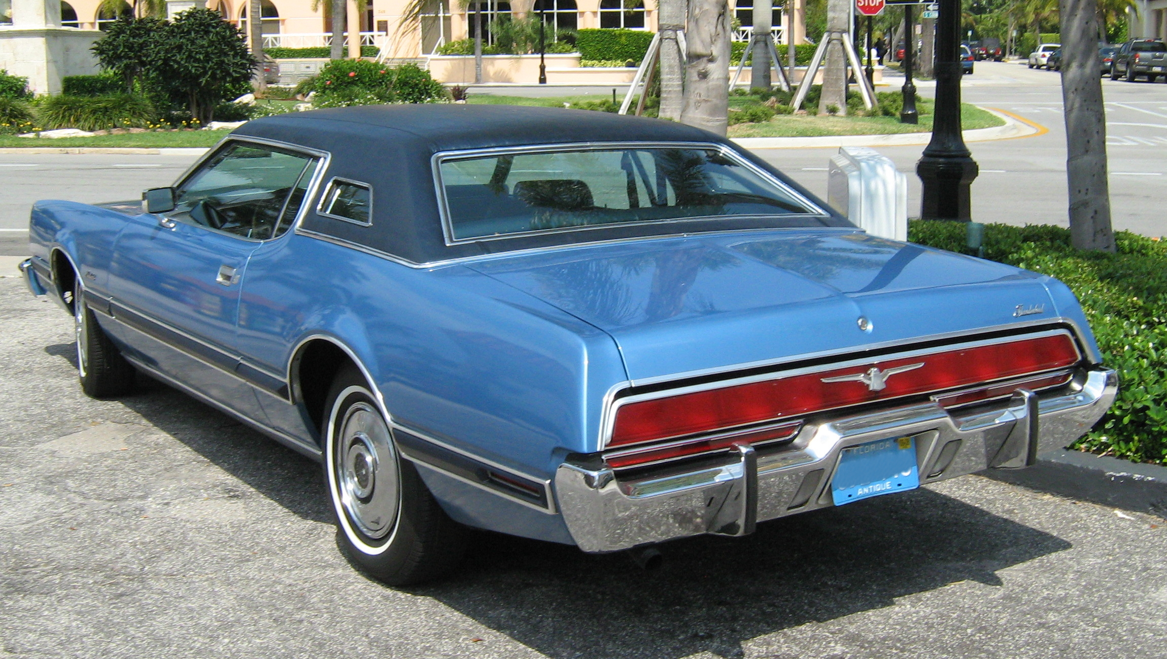 1973 Ford Thunderbird finished in blue - rear view. Photographed in Palm Beach, Florida.